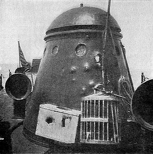 Battle damage inflicted to the conning tower of the United States Navy torpedo boat USS Winslow. Date: May 11, 1898, Second Battle of Cardenas